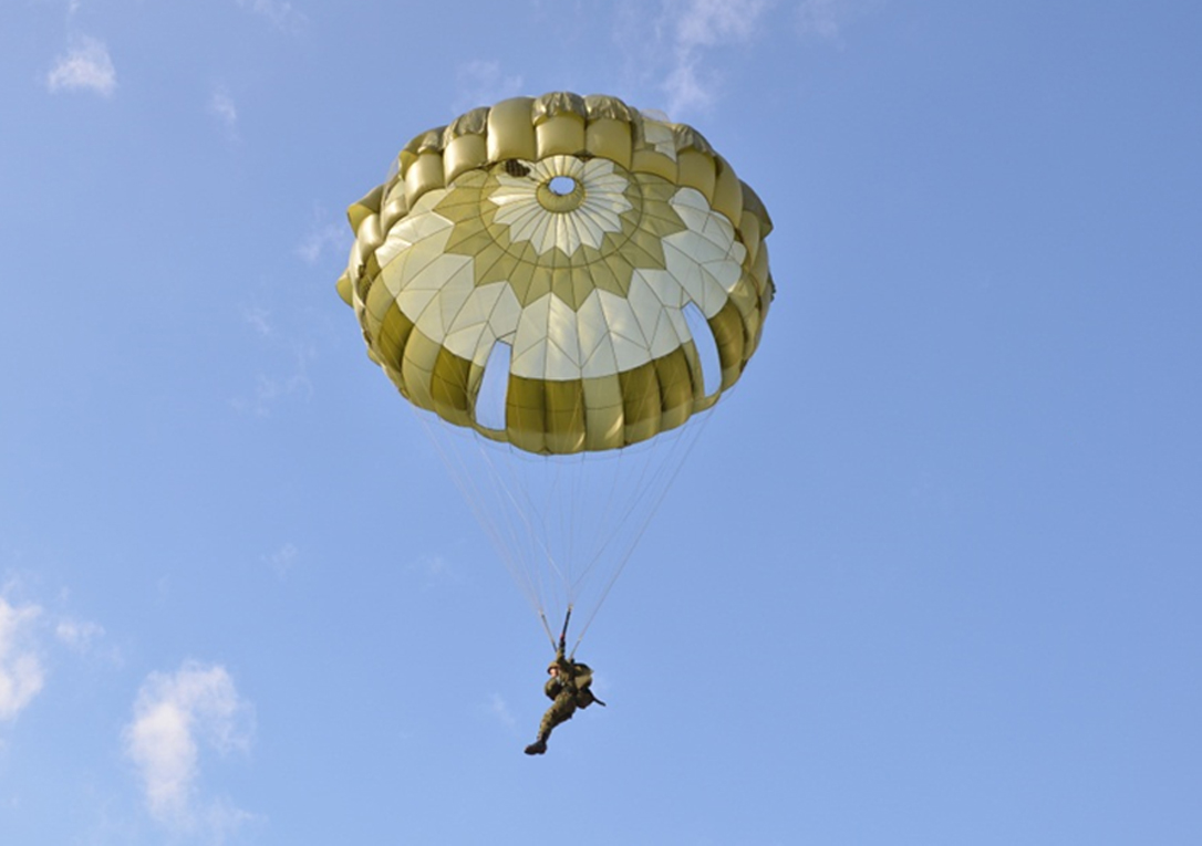 Type 13 parachute, Japan GSDF